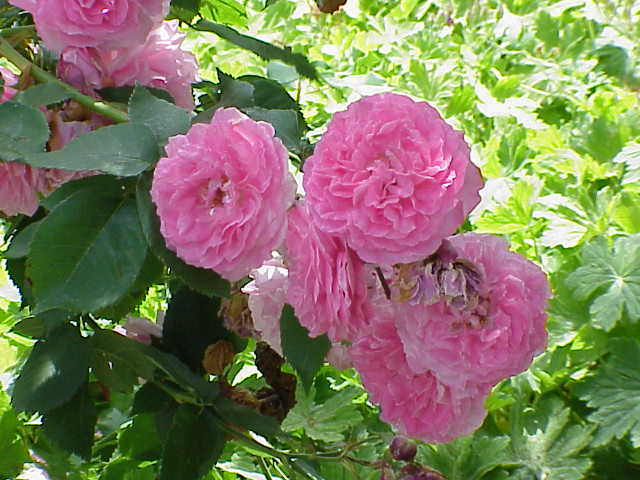 Species: Rosa sp. Family: Rosaceae Cultivar: Prince Napoleon Image No. 229